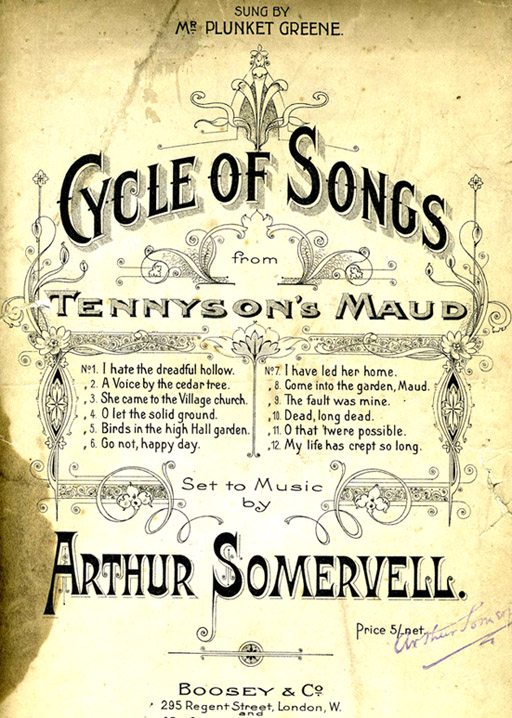 Title page of original edition of Arthur Somervell's Cycle of Songs from Tennyson's Maud.